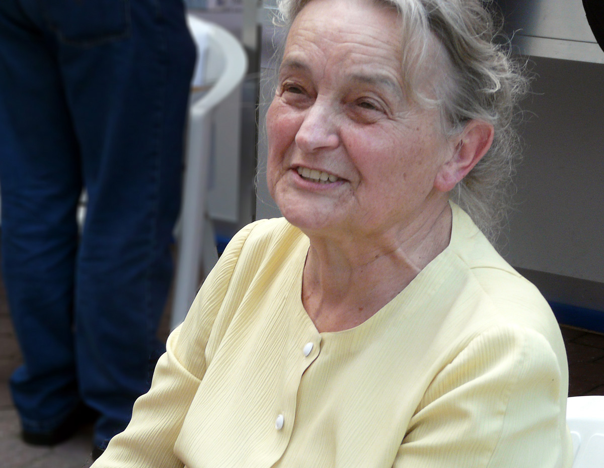 Zsuzsa Albert, Hungarian poet. Juin 2010.